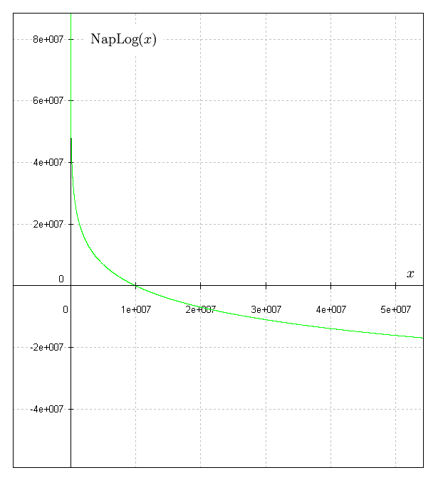 A plot of the Napierian logarithm for inputs between 0 and 5*107.